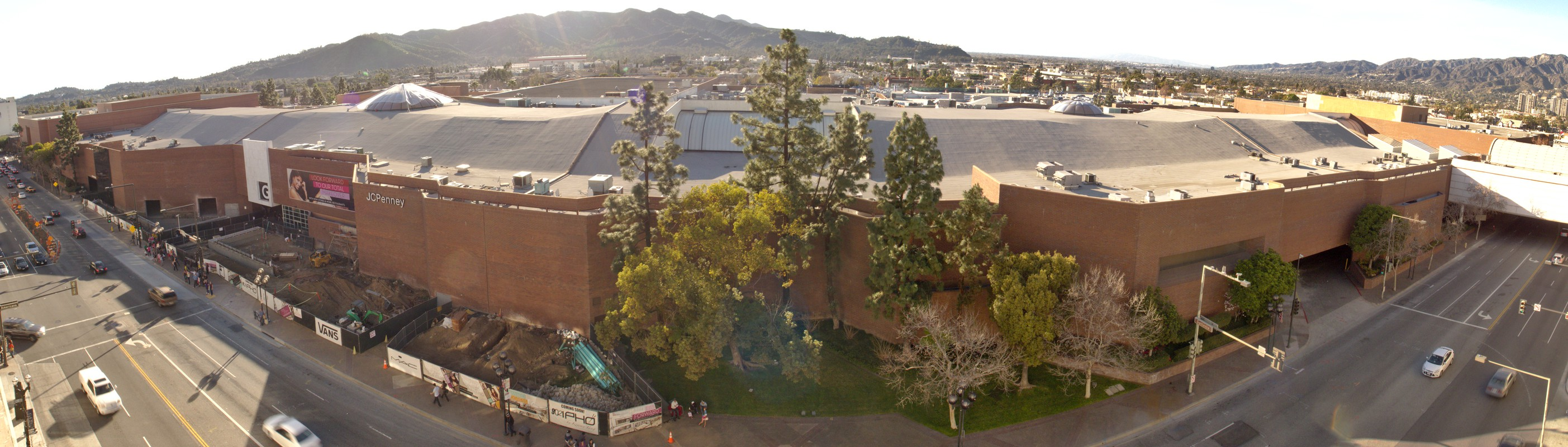 The Glendale Galleria from accross S. Central Ave. looking westward.